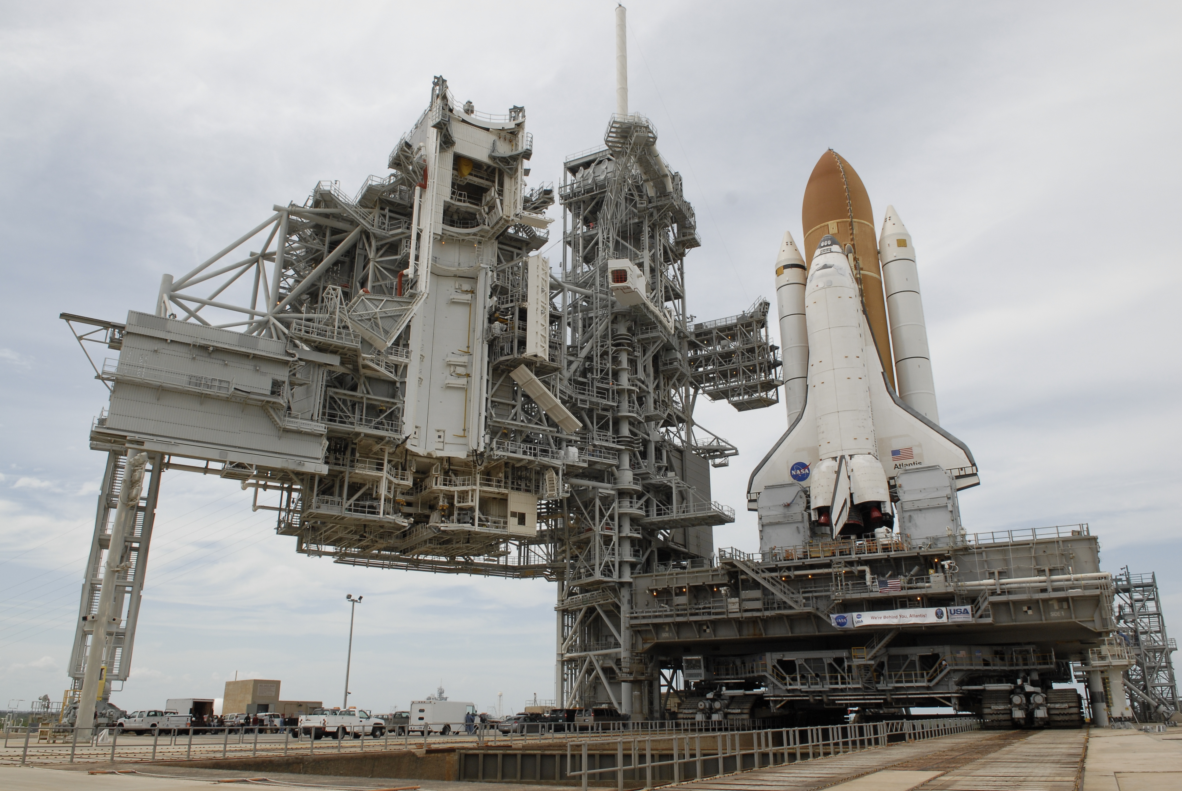 Space shuttle Atlantis comes to a stop on the top of Launch Pad 39A at NASA's Kennedy Space Center after more than a 6-hour journey from the Vehicle Assembly Building. First motion occurred at 9:19 a.m. EDT and Atlantis was hard down on the pad at 3:52 p.m. At far left is the rotating service structure that will be rotated to enclose the shuttle for launch preparations. The shuttle stack, with solid rocket boosters and external fuel tank attached to Atlantis, rest on the mobile launcher platform. Movement is provided by the crawler-transporter underneath. The Sept. 2 rollout date was postponed due to Tropical Storm Hanna’s shift to a northern track.